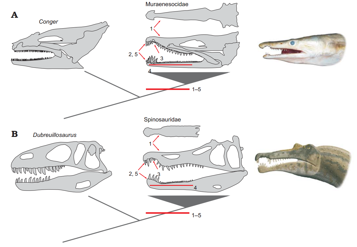 Comparative evolution of jaws between Mura enesocidae (A) and Spinosauridae (B). Craniodental morphologies of Recent pike conger eels and Cretaceous spinosaurid theropod dinosaurs are convergently similar, likely resulting from similar feeding habits. In the sister groups of Muraenesocidae and Spinosauridae, here represented respectively by Conger (Congridae) and Dubreuillosaurus (Megalosauridae), skulls exhibit the plesiomorphic condition (i.e., rostrum not markedly elongated, absence of premaxillary and dentary “rosettes”, dentition homodont). The derived condition observed in both pike congers and spinosaurs, which seems to be associated with an enhanced sensitivity, can be interpreted as an adaptation to forage efficiently in aquatic environments and to grab evasive prey items such as fishes. Mura enesocidae are represented here by Muraenesox bagio (skull and head), and Spinosauridae by Baryonyx walkeri (skull) and Spinosaurus aegyptiacus (head reconstruction; courtesy of Stephen O’Connor). Characters: 1, elongated rostrum; 2, terminal “rosette” in both upper and lower jaws; 3, deep notch posterior to the upper jaw “rosette”; 4, strong heterodonty (in size); 5, “rosettes”